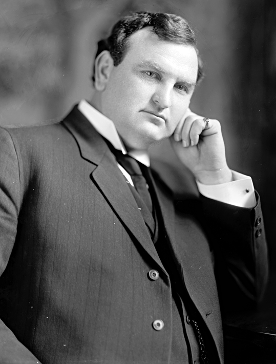 Hannibal Lafayette Godwin, US Representative from North Carolina